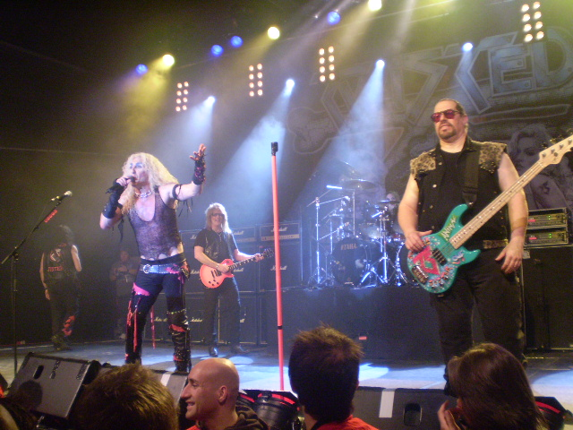 This is a picture of the band Twisted Sister during a gig in Solnahallen.